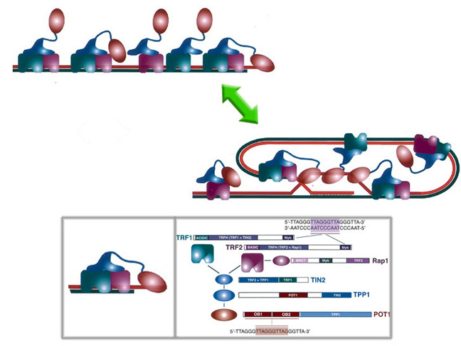 Interpretation of data in a paper by the team of Griffith and Titia the Lange at the Rockefeller University, depicting an schematics of the arrangement of subunits in the Shelterin/Telosome complex. Also is shown the way in which this complex is attached to the telomeric DNA, and domains of the relevant proteins.